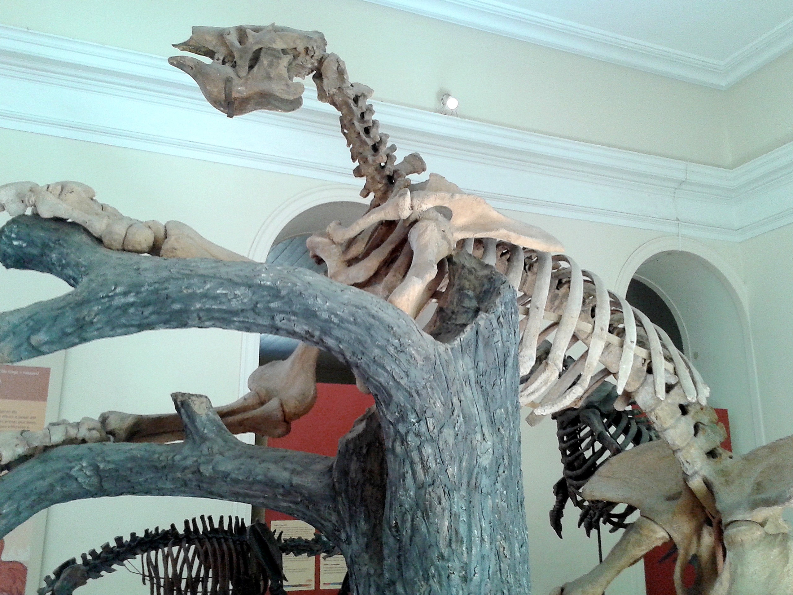 Classification: Xenarthra, Megatherinae Size: 4 meters (height); 6 meters (length) weight: 5 t Feeding: herbivore